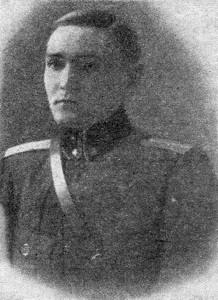 Lieutenant Herman Maim (partook in the battle of Kreenholm 1918-11-28, died in Tartu in 1922).